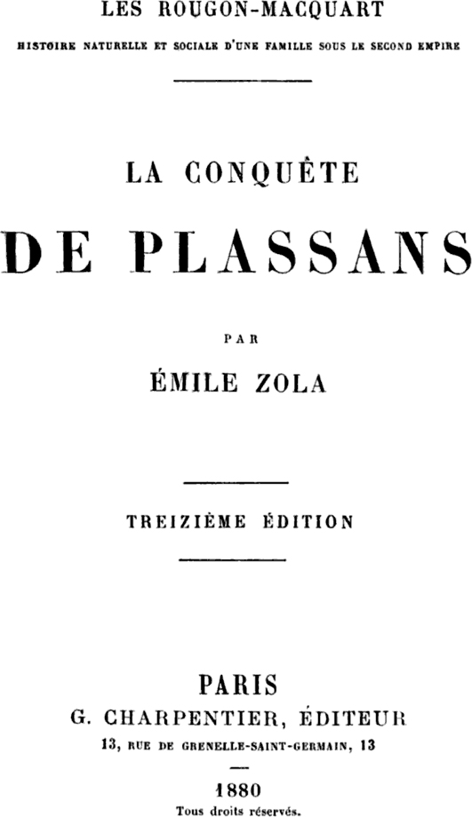 The Conquest of Plassans (1874) by Émile Zola (1840-1902)